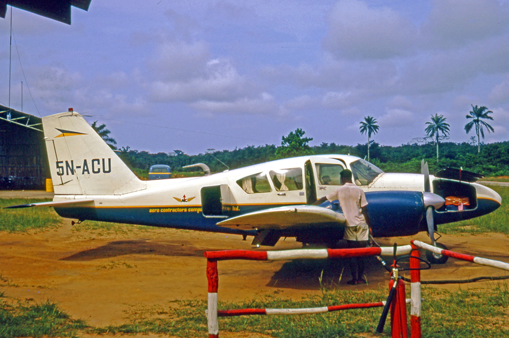 Piper PA-27 Aztec of Aero Contractors at Warri Airport Nigeria in 1970